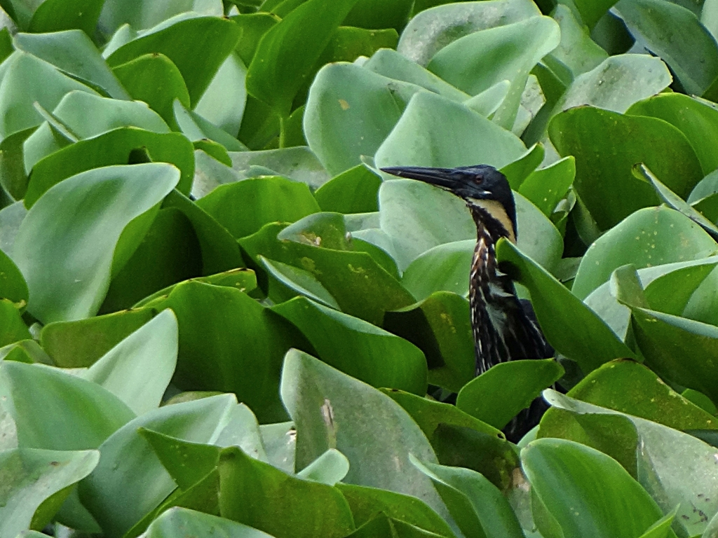 Black Bittern